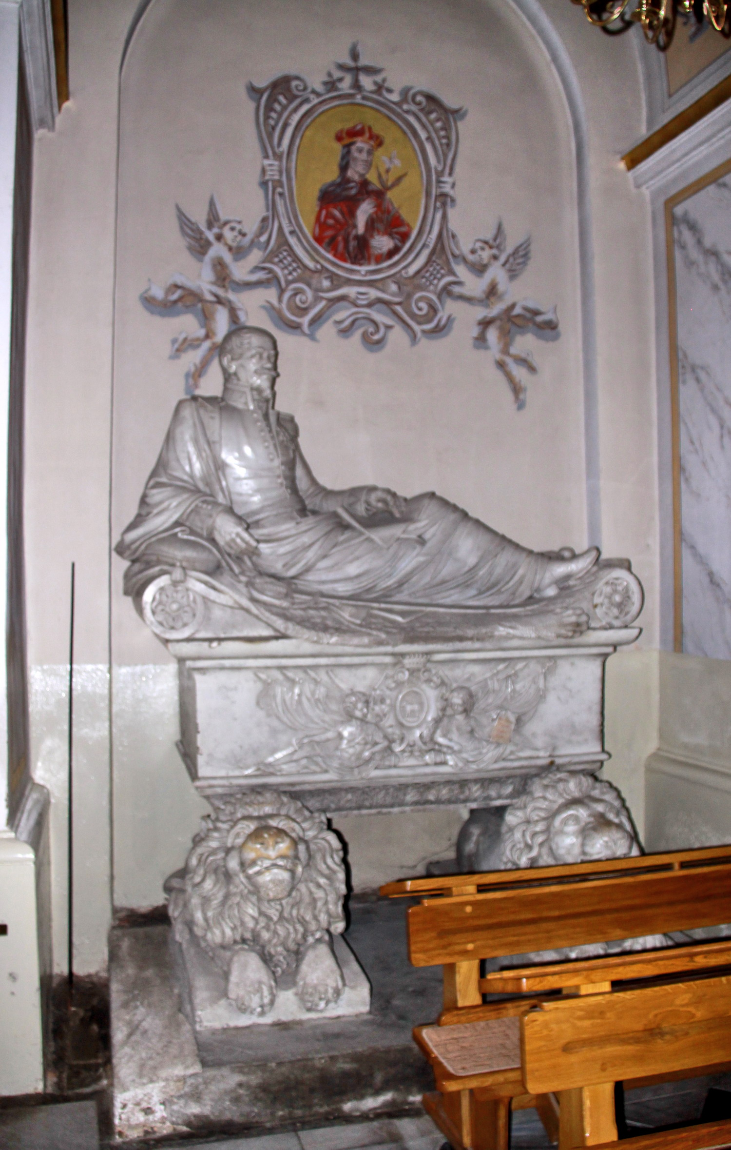 Sarcophagus of General Officer Józef Bonawentura Załuski in parish church in Gręboszów.